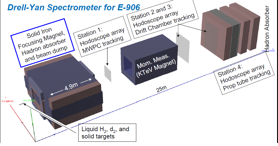 3D picture of the spectrometer layout for E-906